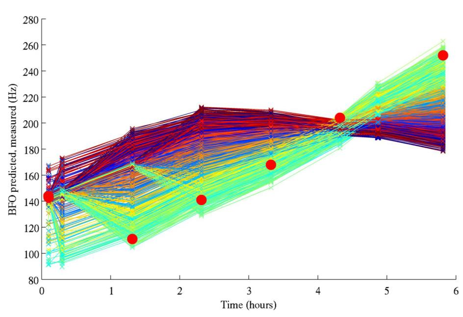 Predicted BFO values for 1000 flight paths originating near the location where Malaysia Airlines Flight 370 disappeared compared with the values recorded from Flight 370, used to determine which direction Flight 370 was traveling in relation to the Inmarsat-3 F1 satellite. This shows a strong correlation with the blueish paths, which are paths travelling south/southeast into the Indian Ocean . The following file is a map showing these paths: File:MH370 Predicted BFO comparison.jpg.